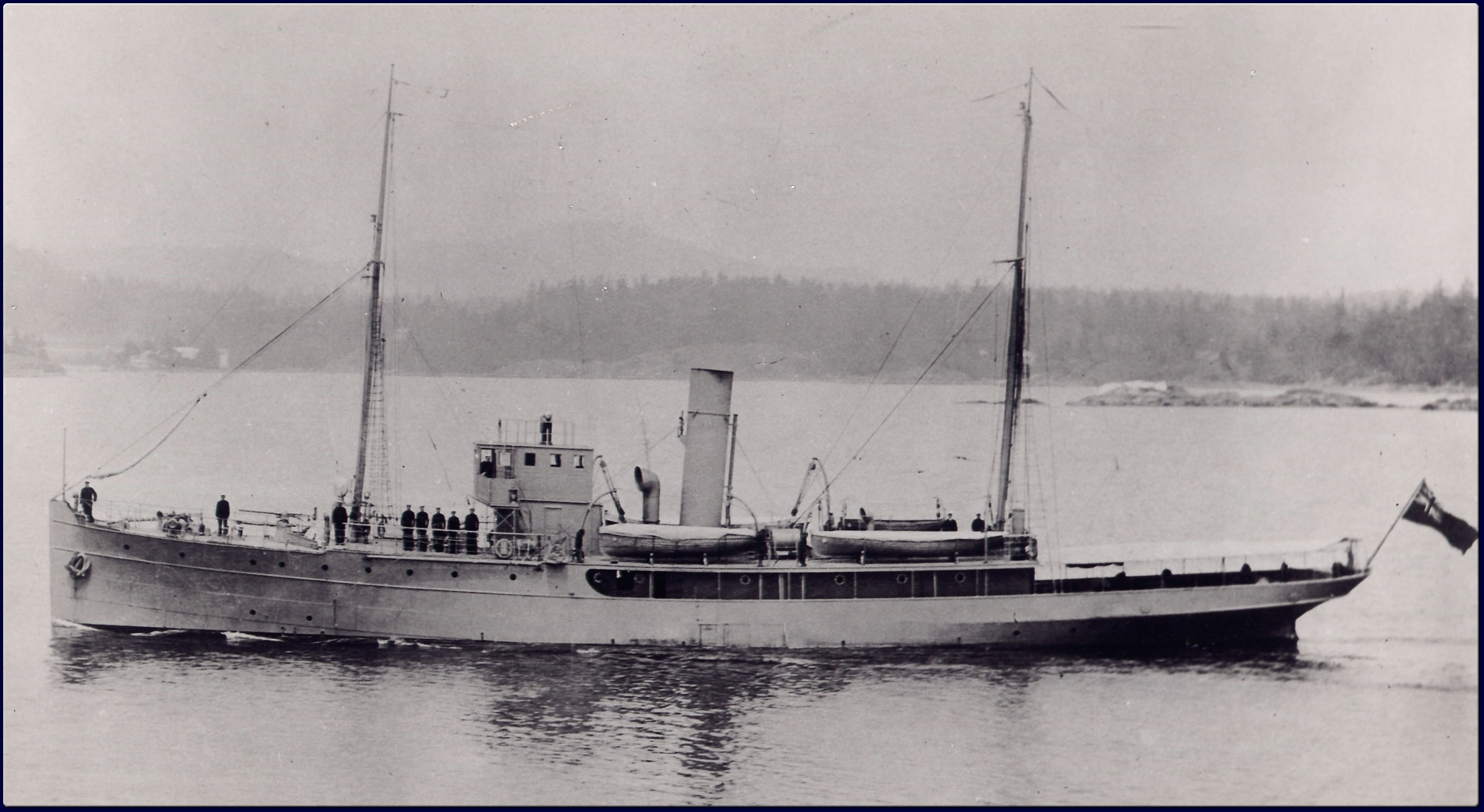 The Canadian government ship GCS Malaspina, which served with the Royal Canadian Navy during the First and Second World Wars as HMCS Malaspina.